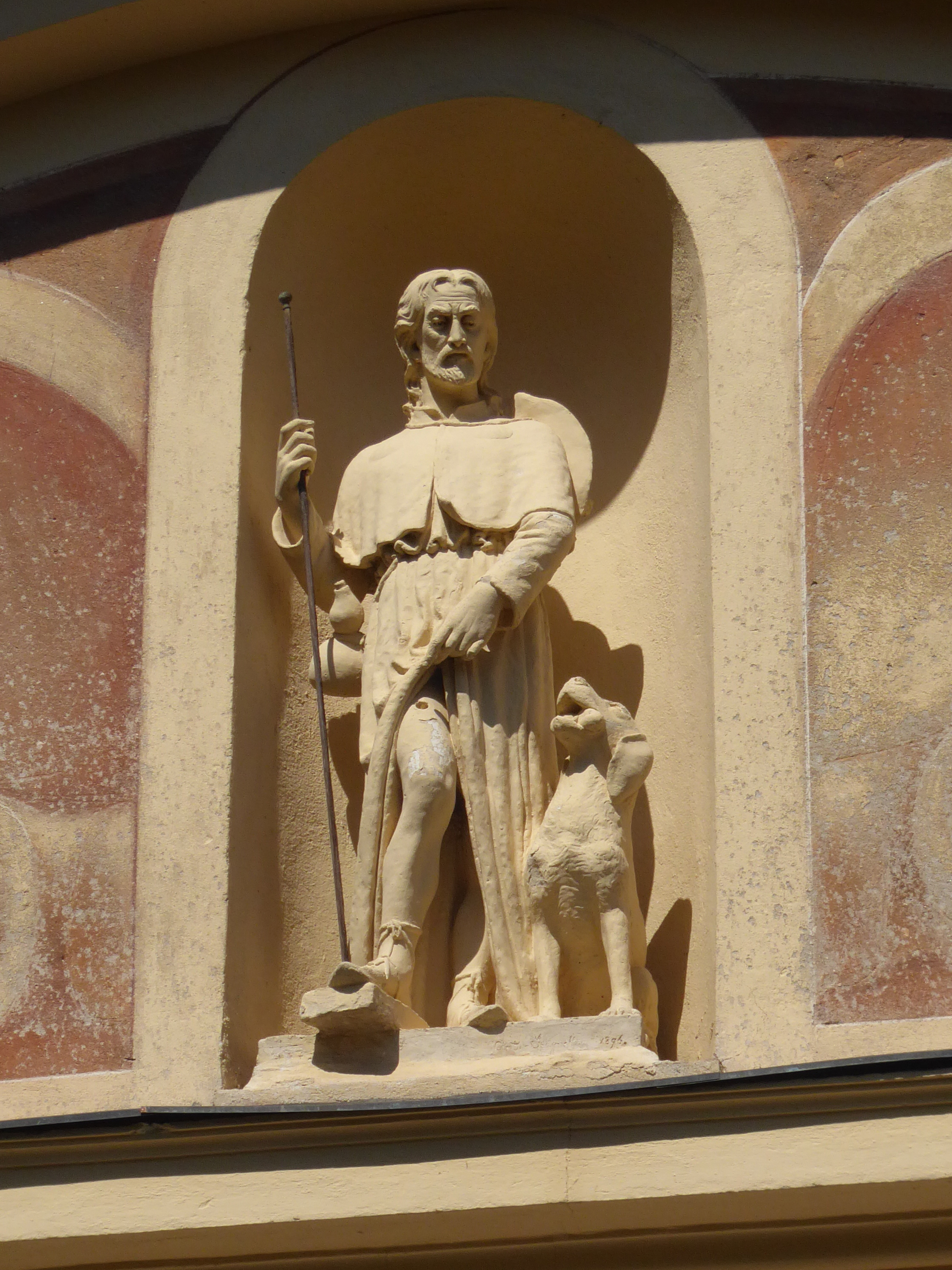 Folaso (Isera, Trentino, Italy), Saint Roch church - Statue of saint Roch on the facade